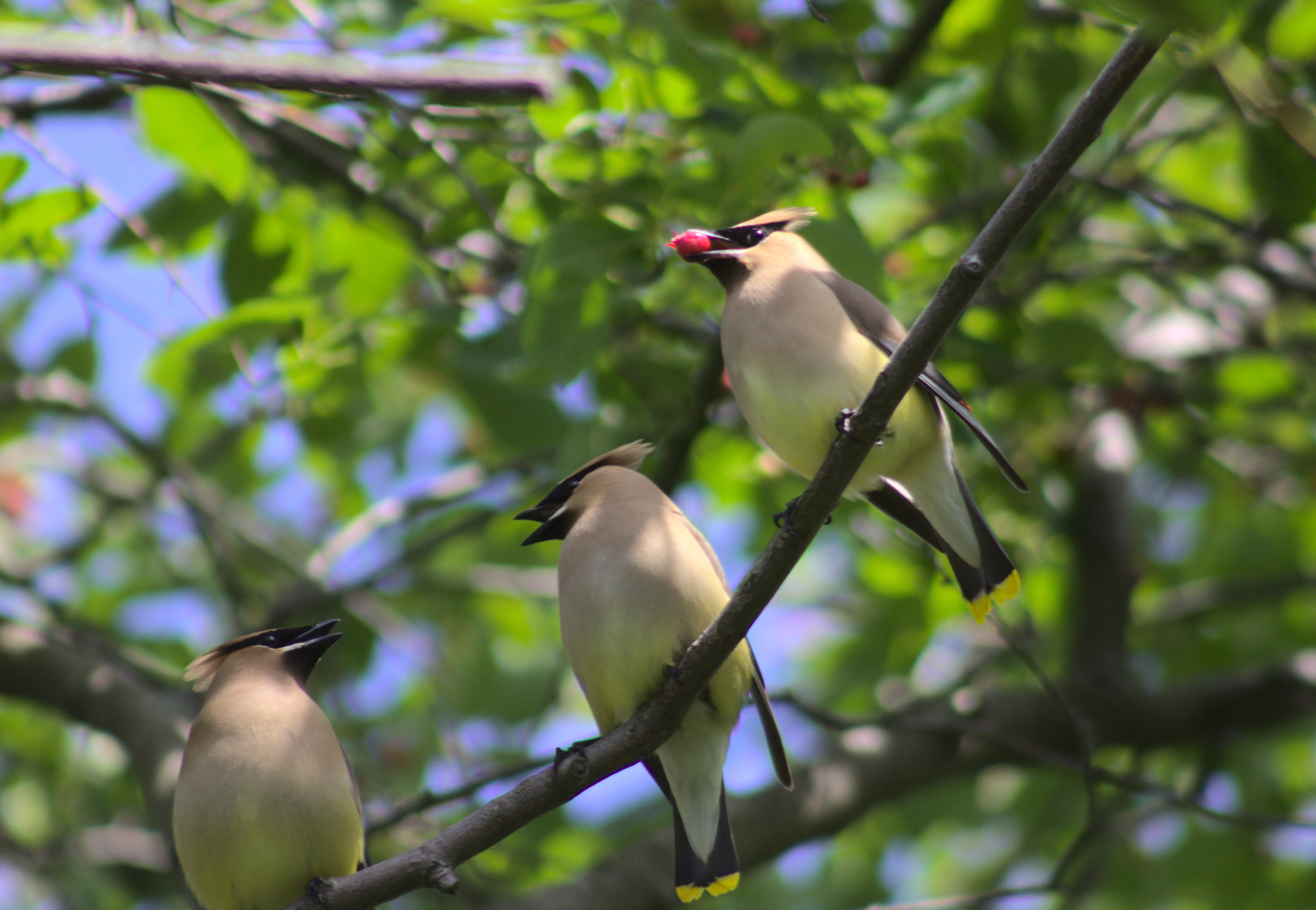 If a source of food, such as berries, is on the end of a small branch, cedar waxwings will form a line and pass the food along so that all birds get an equal share. Here, three cedar waxwings are passing berries back and forth in Ontario, Canada.